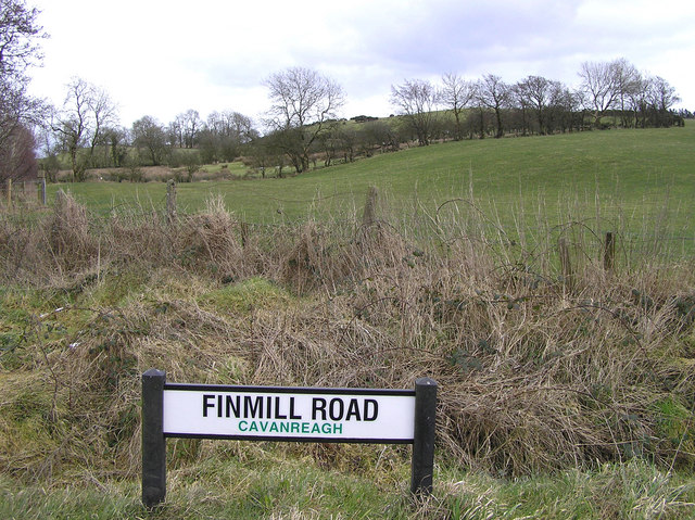 Finmill Road, Sixmilecross. It is in the townland of Cavanreagh